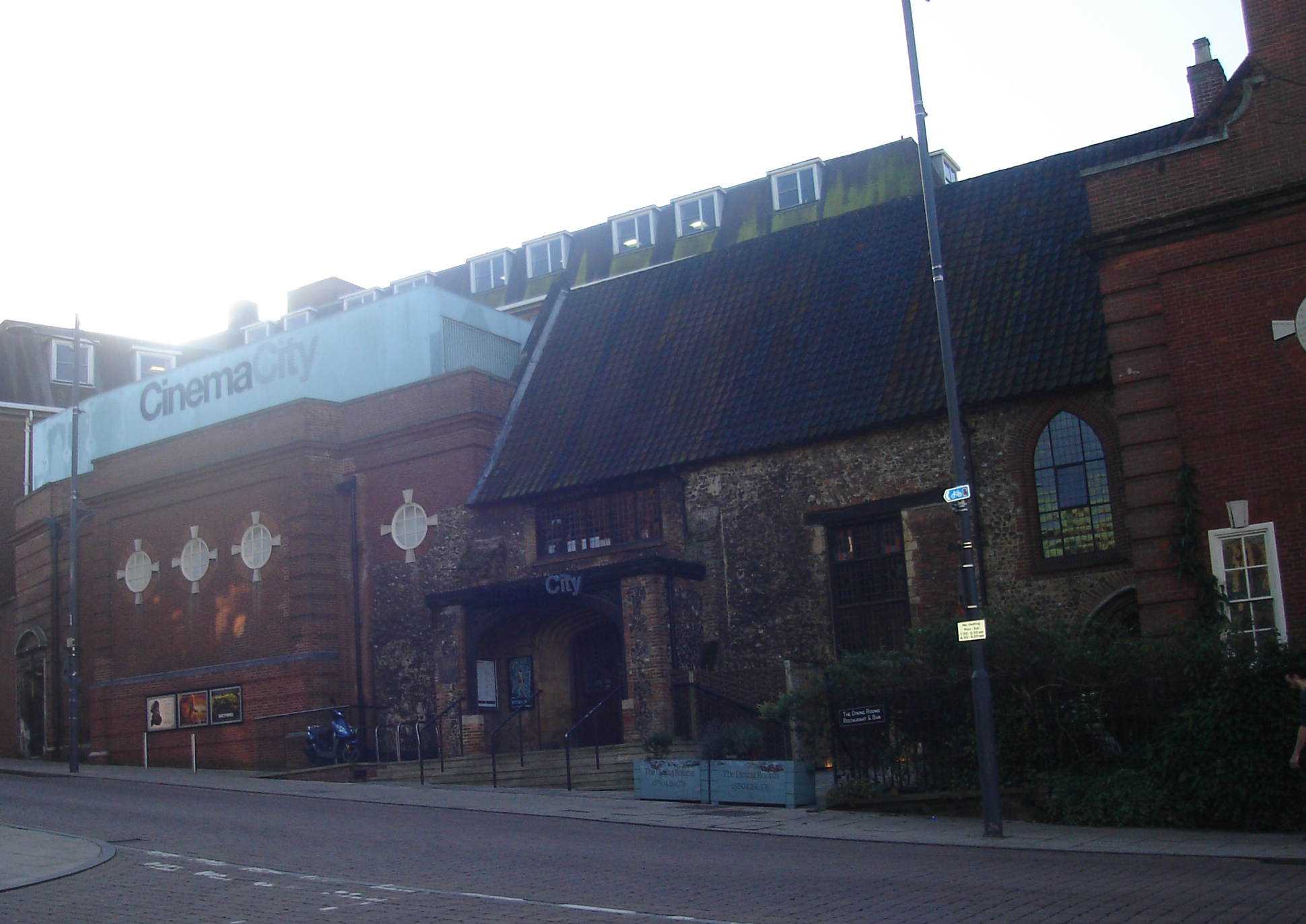 A view of Cinema City, Norwich